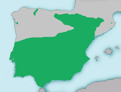 Distribution map of Cobitis paludica in Iberian Peninsula.